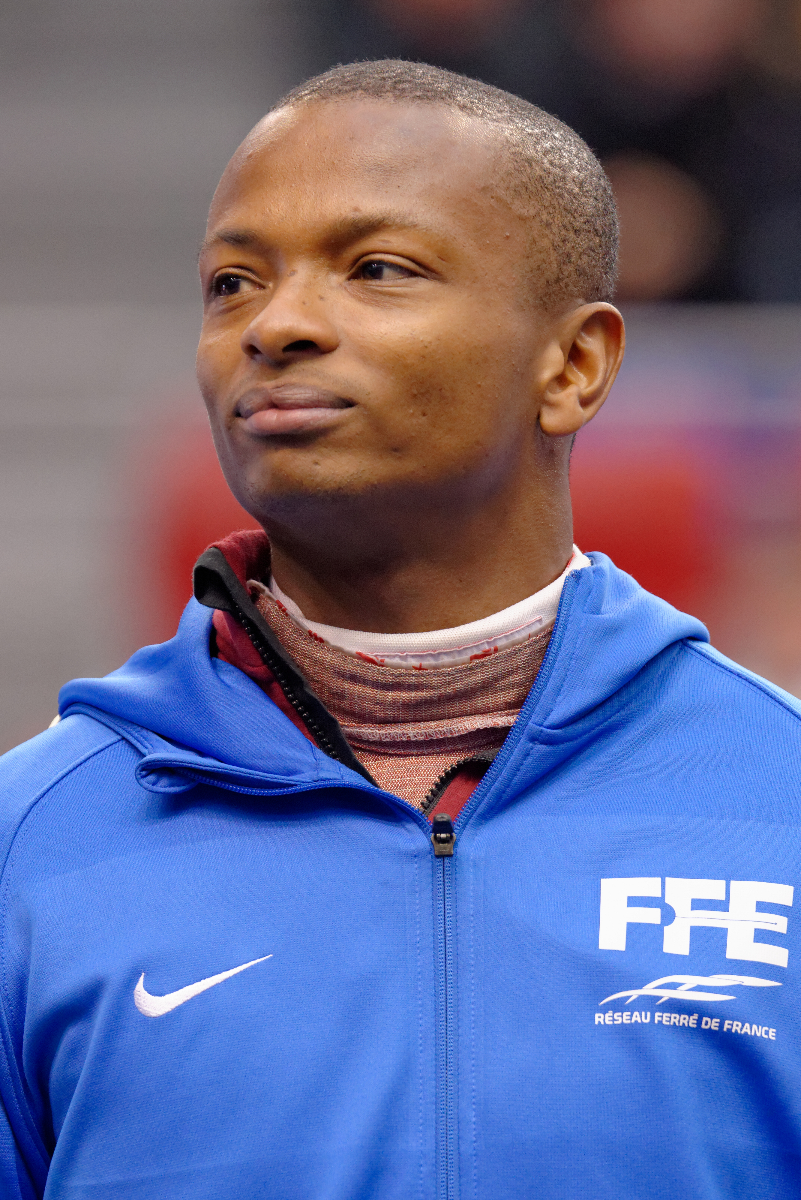 France's Jean-Paul Tony Hélissey at the individual event of the 2015 Challenge International de Paris, a men's foil World Cup competition.